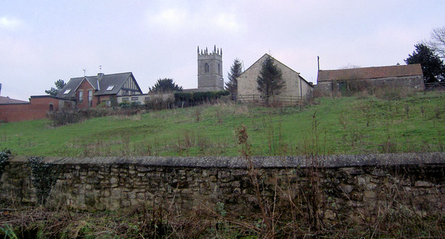 View from Lime Kiln Lane, Stainton, South Yorkshire, across a pasture to the tower of St Winifred's parish church